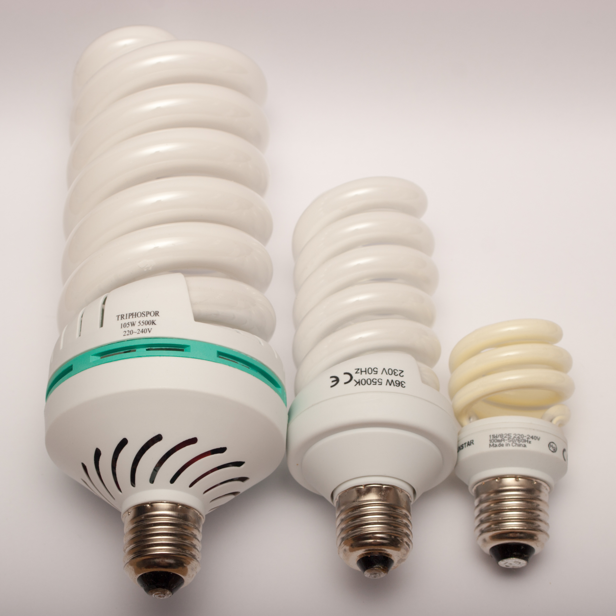 Comparison of compact fluorescent light bulbs with 105W, 36W und 11W.